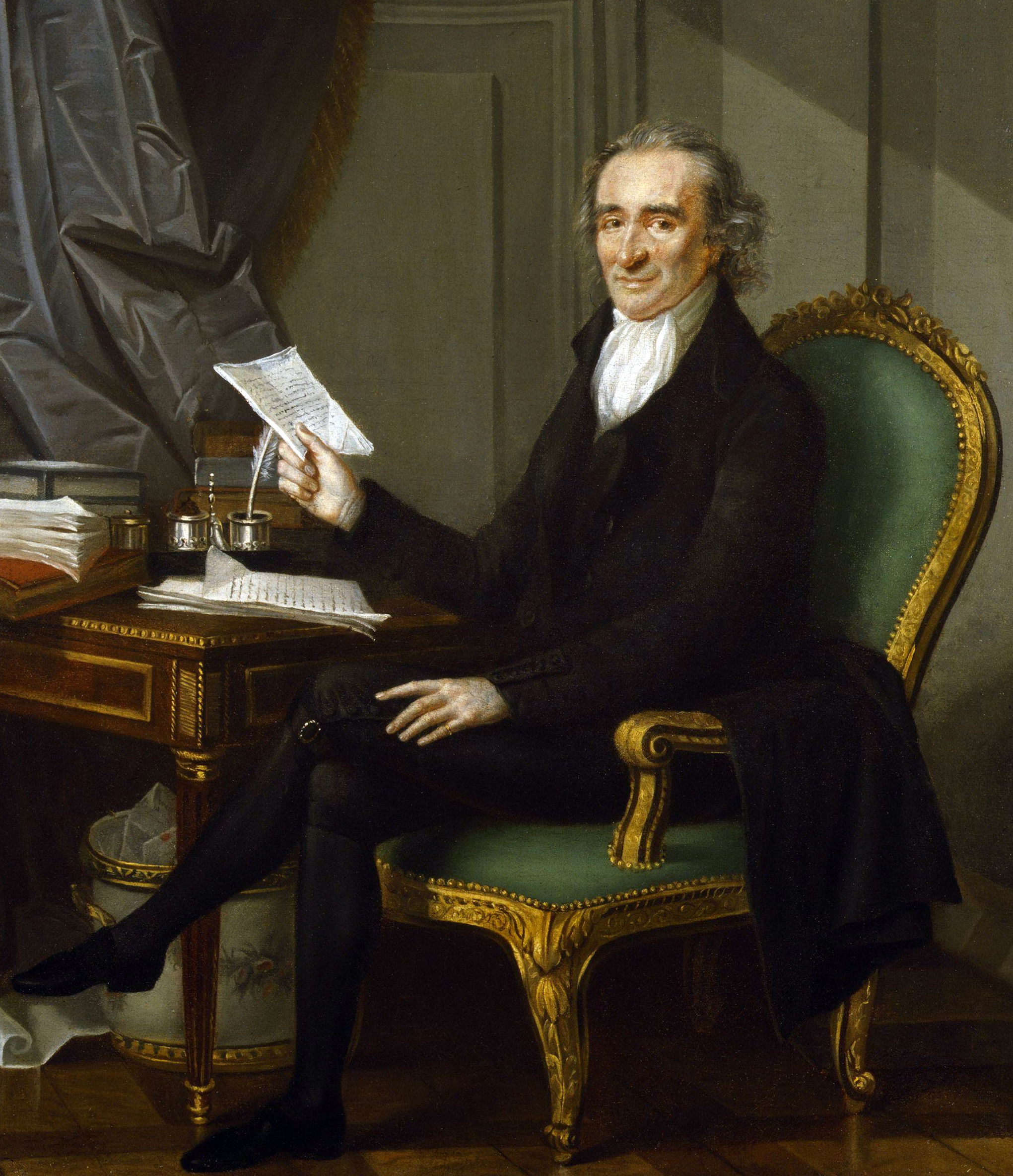 All images in this batch have been confirmed as author died before 1939 according to the official death date listed by the NPG.